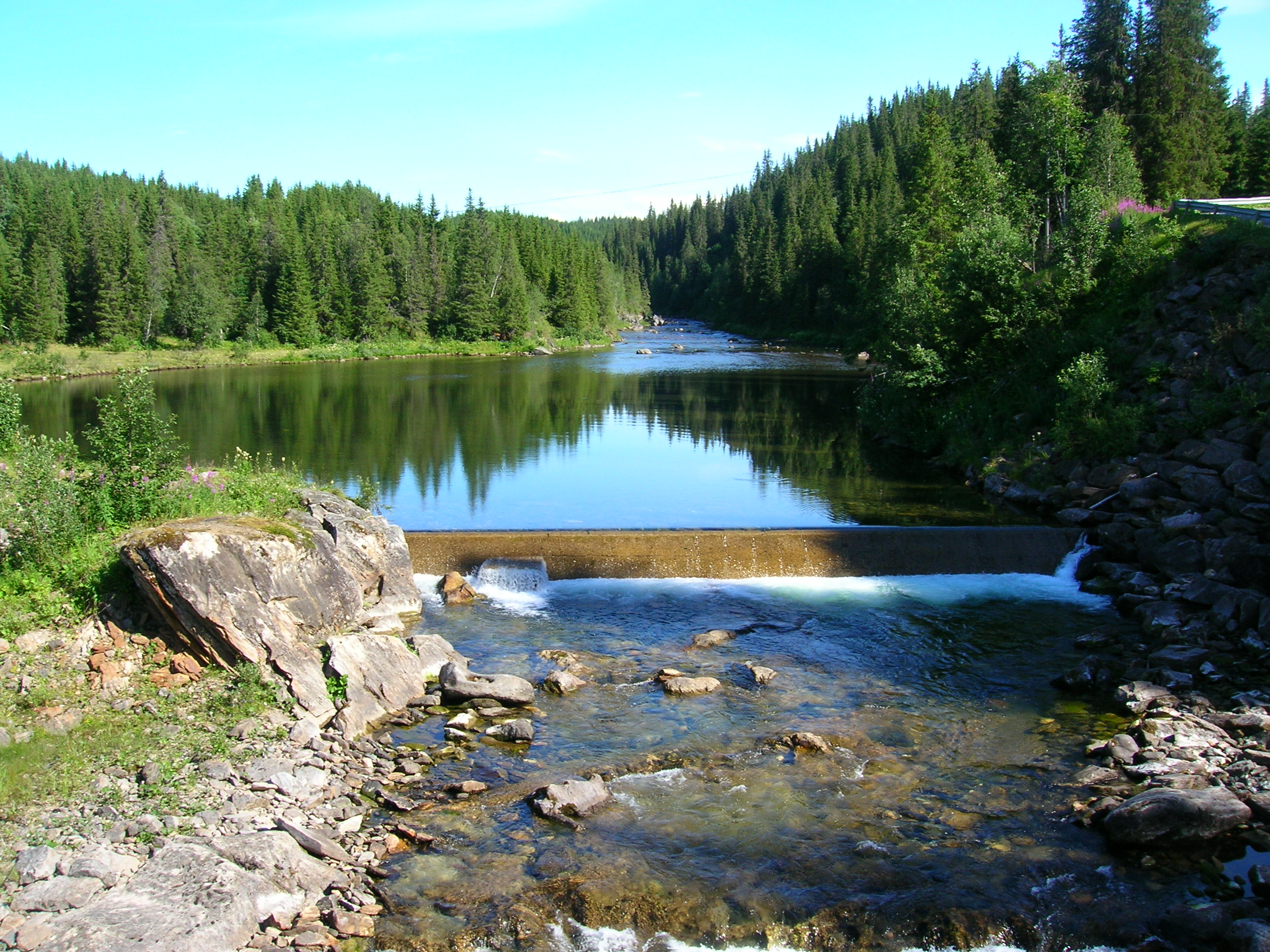 The River Plura passing through the valley Plurdalen in Rana municipality, county of Nordland, Norway, Photo 23 July, 2007 with a Nikon Coolpix 5600 5,1 Megapixel camera.